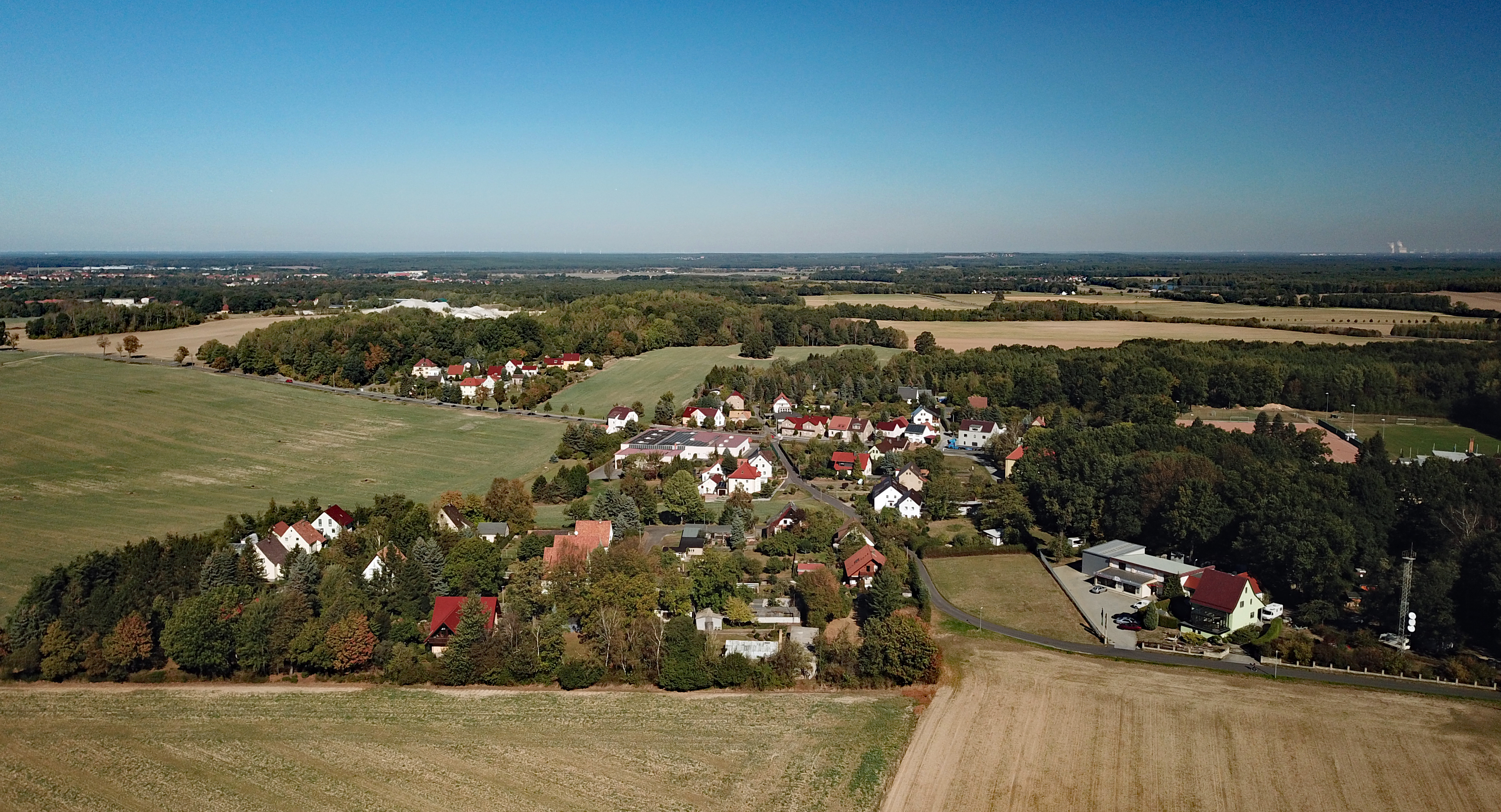 Thonberg (Kamenz, Saxony, Germany) Hornjoserbsce: Powětrowy wobraz Hlinowca